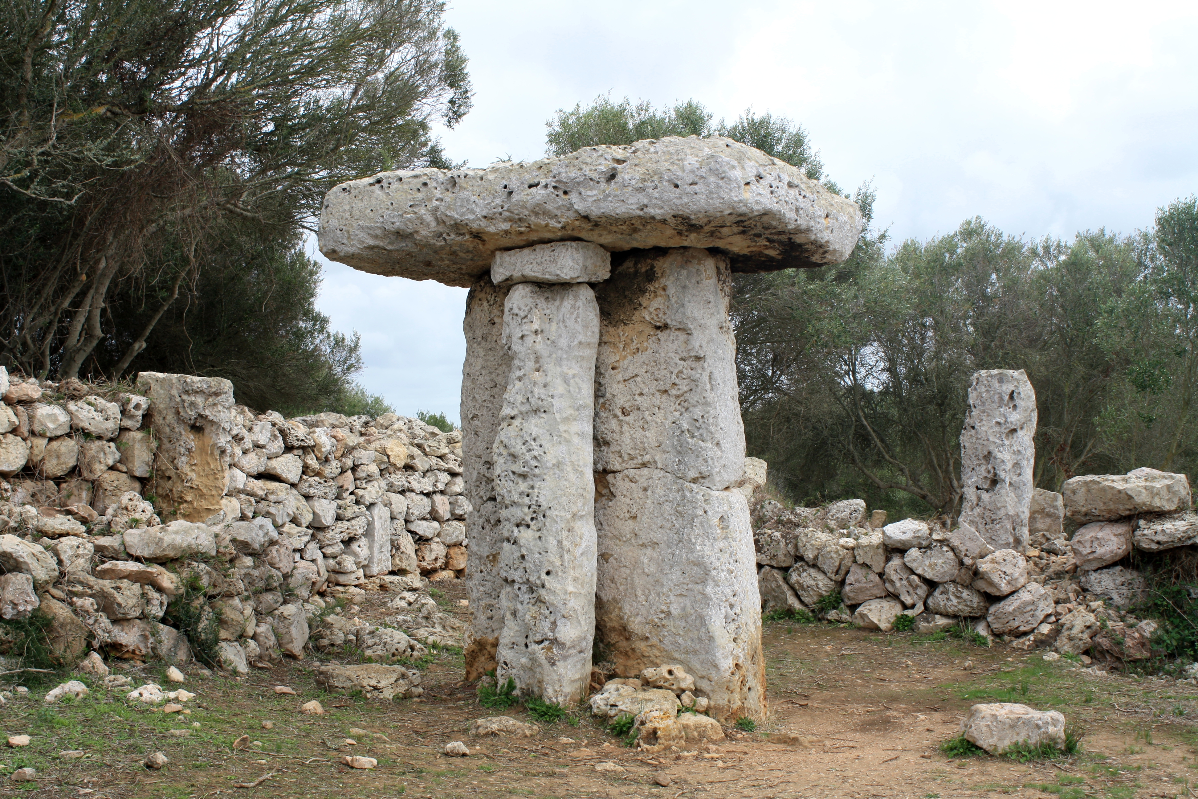 Taula of the prehistoric settlement Torretrencada, Ciutadella, Minorca.